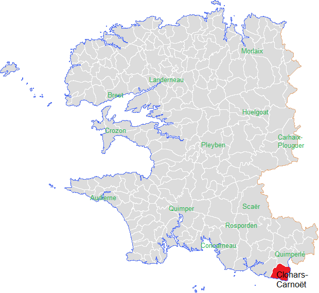 placement Clohars-Carnoët in departement Finistère